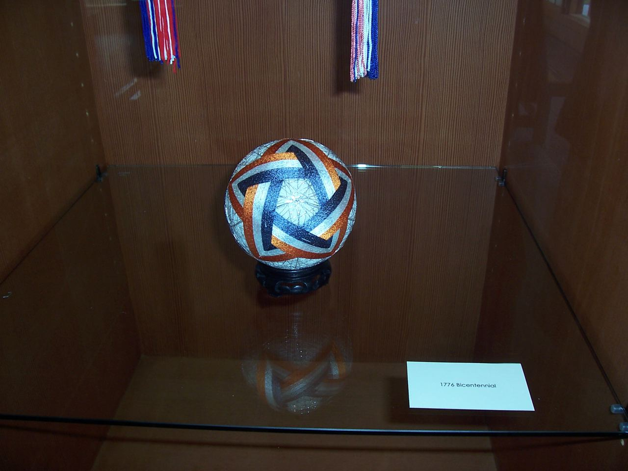 A Japanese temari created in honor of the United States Bicentennial in 1976.